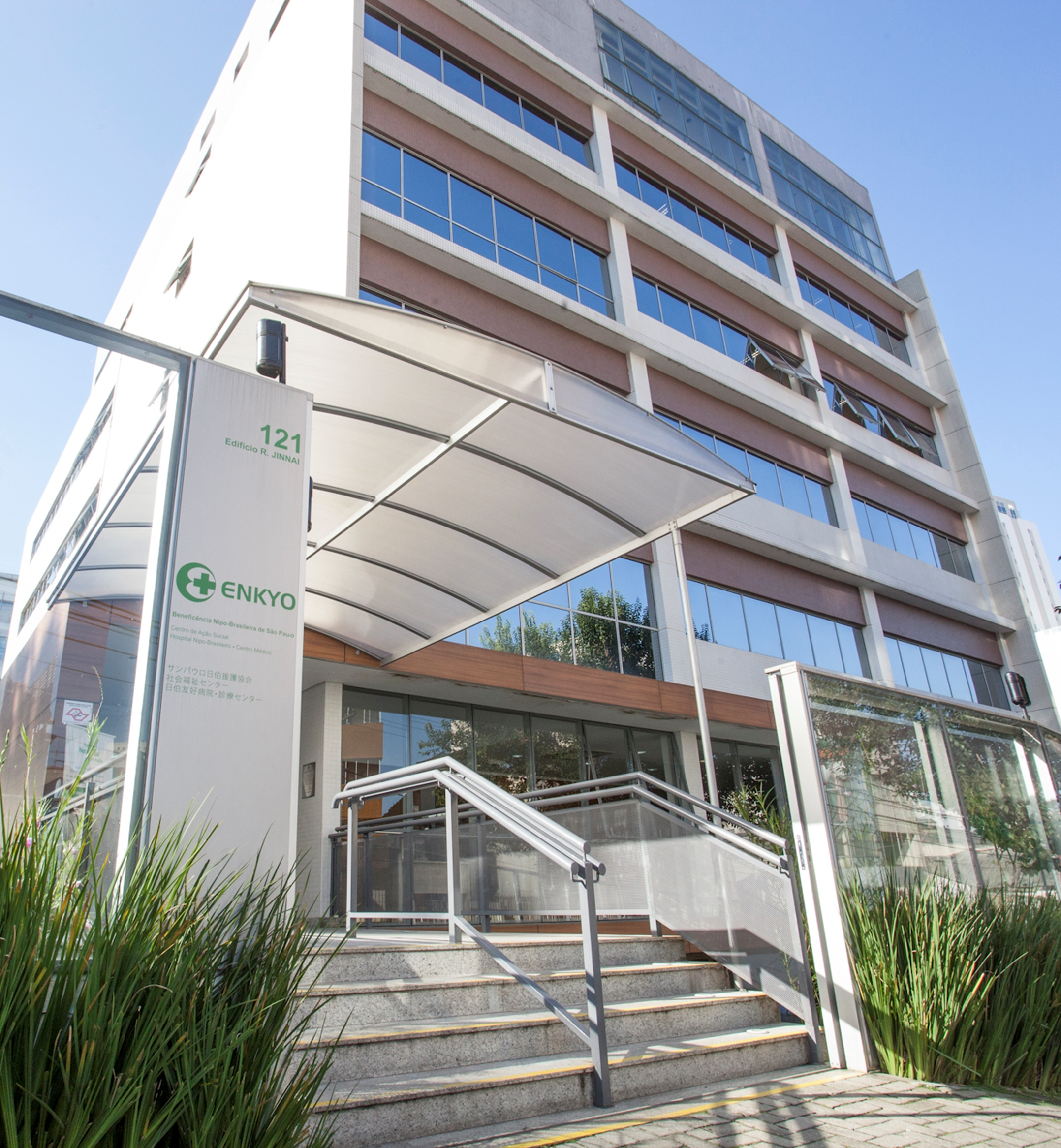 San Paulo Enkyo's Head Office